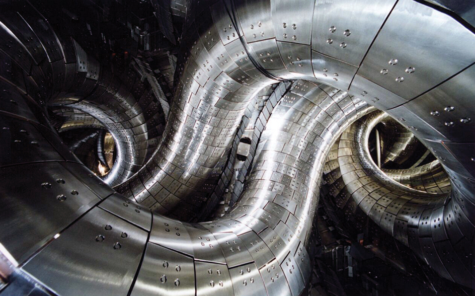 Inside Japan's Large Helical Device (LHD) stellarator, built to test plasma fusion confinement.